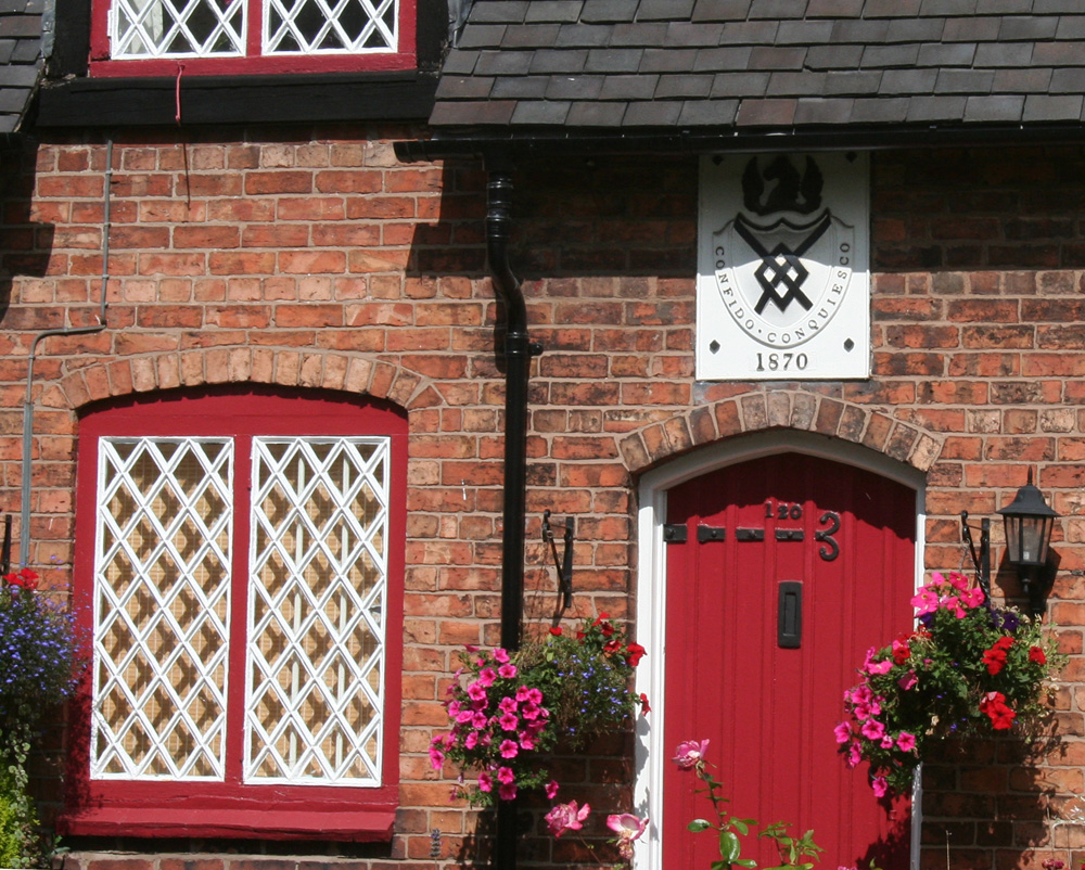 Detail of Wilbraham's Almshouses, 118–128 Welsh Row, Nantwich, Cheshire